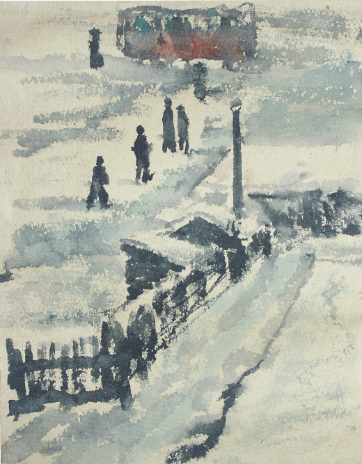 Drawing: "Bus stop 1". Aquarell. 21X27 Archive of Ac. M.M.Schultz 1968 Autor: Mikhail Schultz see below